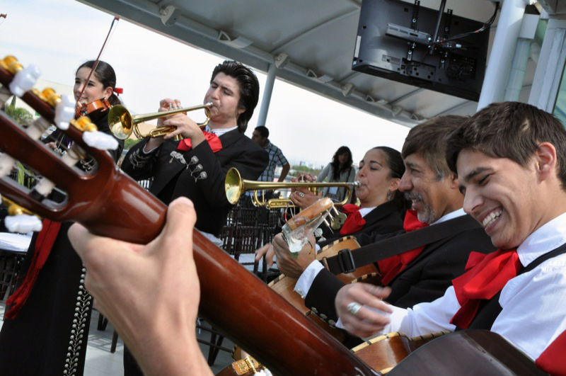 Mexican mariachi of the ITESM Guadalajara playing traditional birthday song "Las Mañanitas" to Wikipedia.